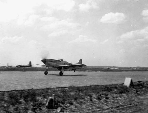 A U.S. Army Air Forces North American P-51D Mustang landing at an airfield in Western Europe during the Second World War. The squadron code appears to be "7F" which would be the 485th Fighter Squadron, 370th Fighter Group. This group flew the Lockheed P-38 Lightning and converted to the P-51D during February/March 1945 while stationed at Ophoven Airfield (Y-32), Belgium. The Group then moved to Gütersloh Airfield (Y-99), Germany, on 20 April 1945.